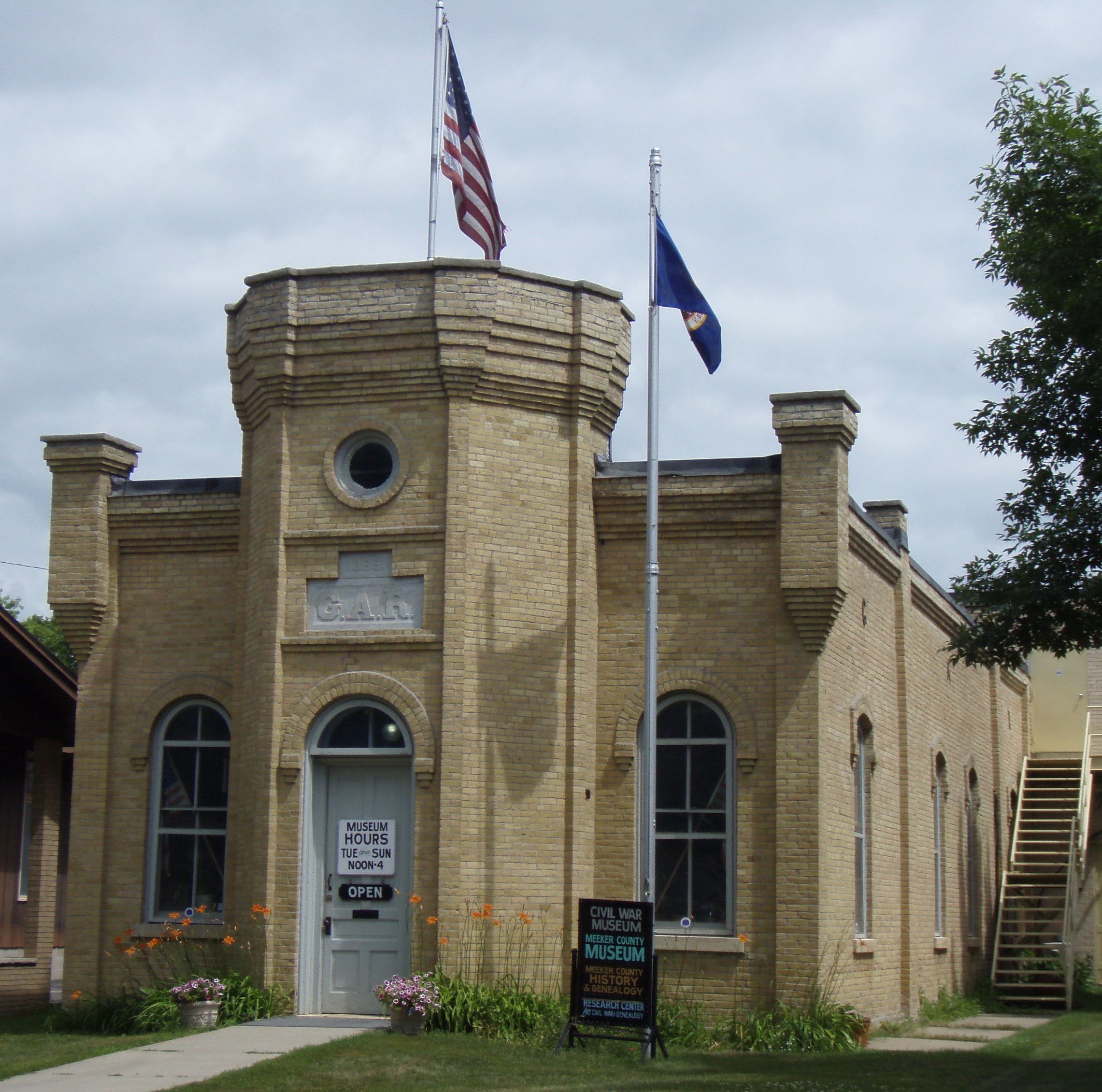 Grand Army of the Republic Hall (Litchfield, Minnesota) in Litchfield, Minnesota, listed on the National Register of Historic Places.